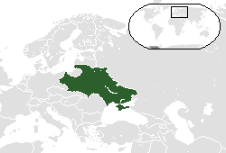 Map showing the territories that would comprise the Międzymorze federation in proposal from 1919 to 1921